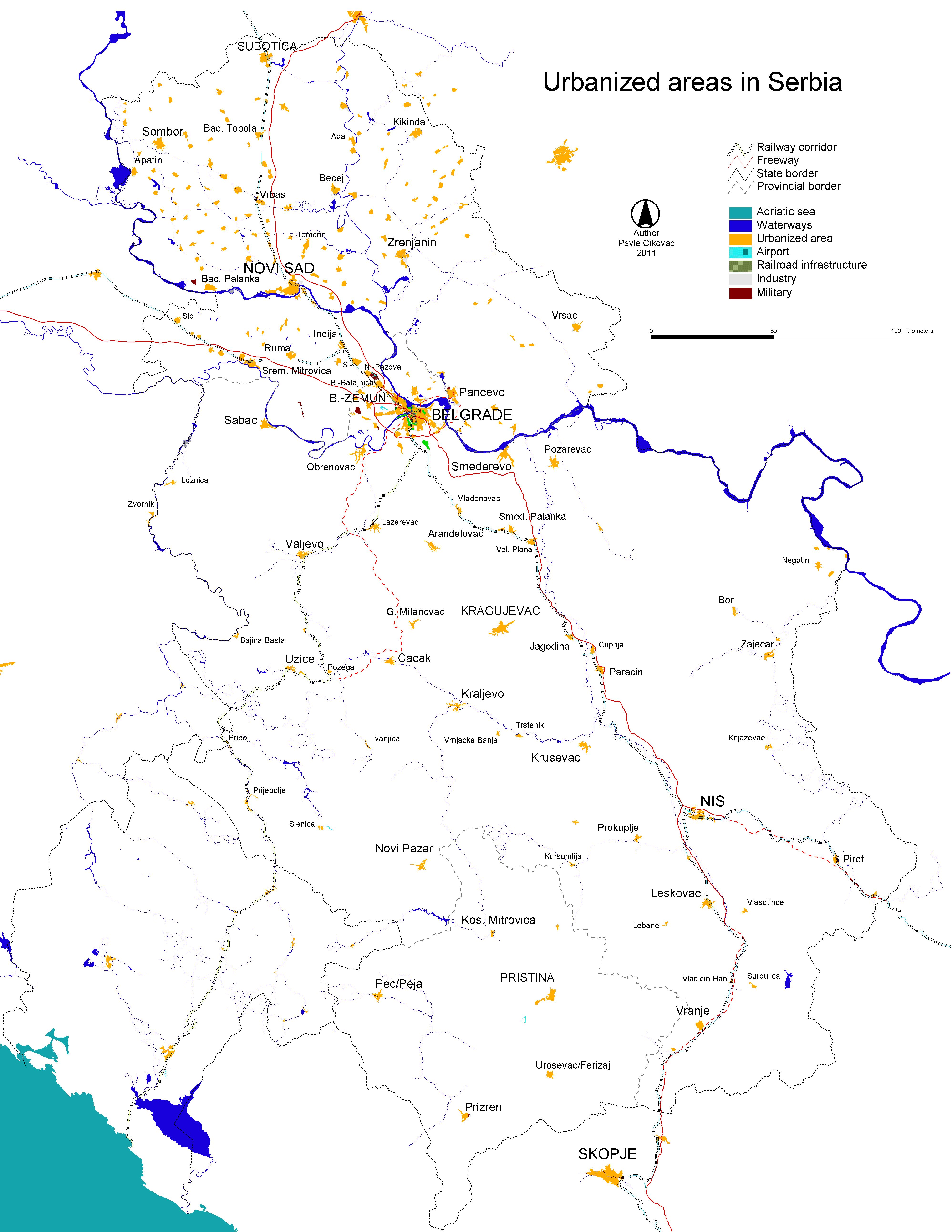 Urbanized areas map of Serbia